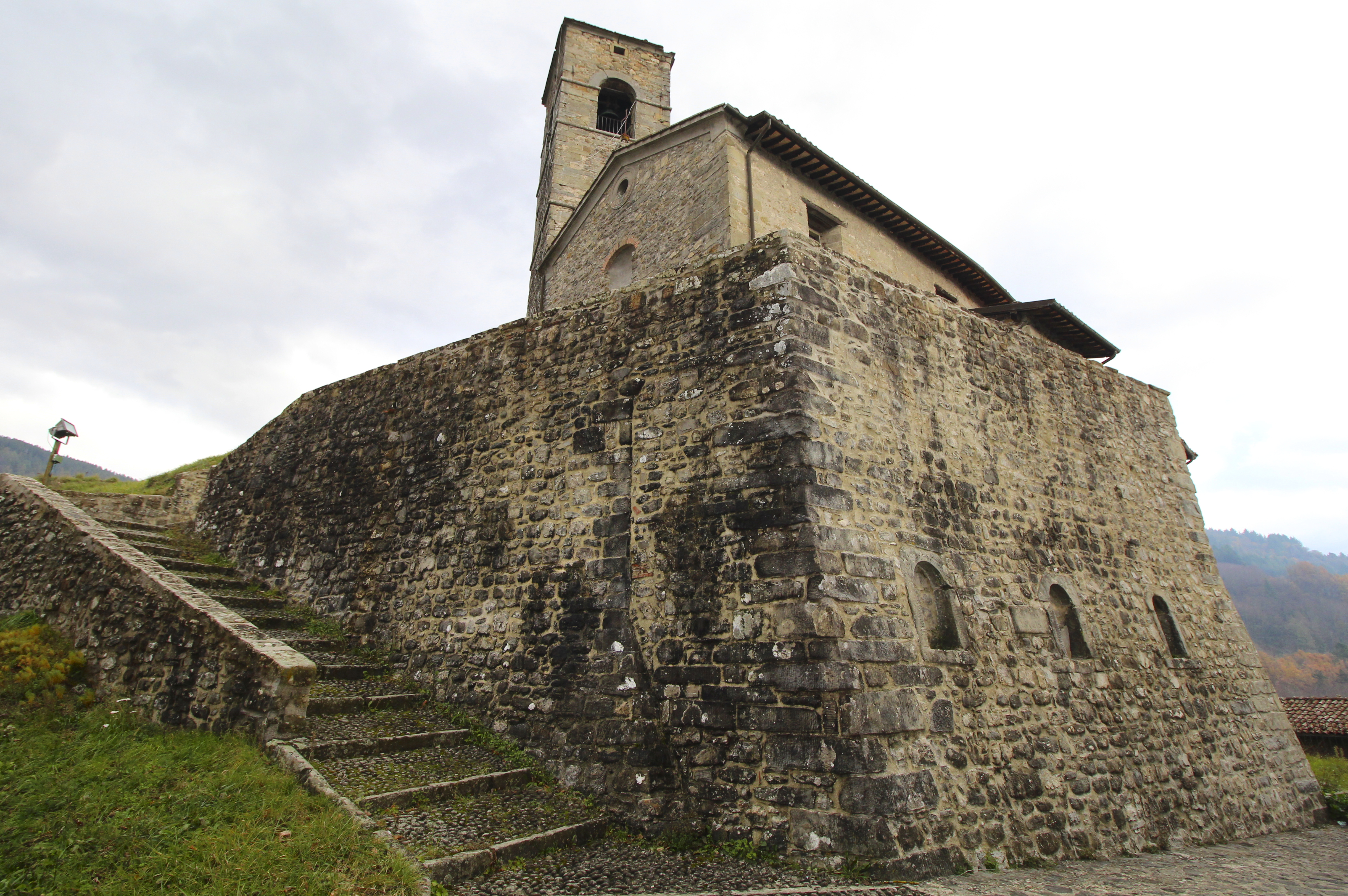 Church San Pantaleone, Sambuca, hamlet of San Romano in Garfagnana, Province of Lucca, Tuscany, Italy